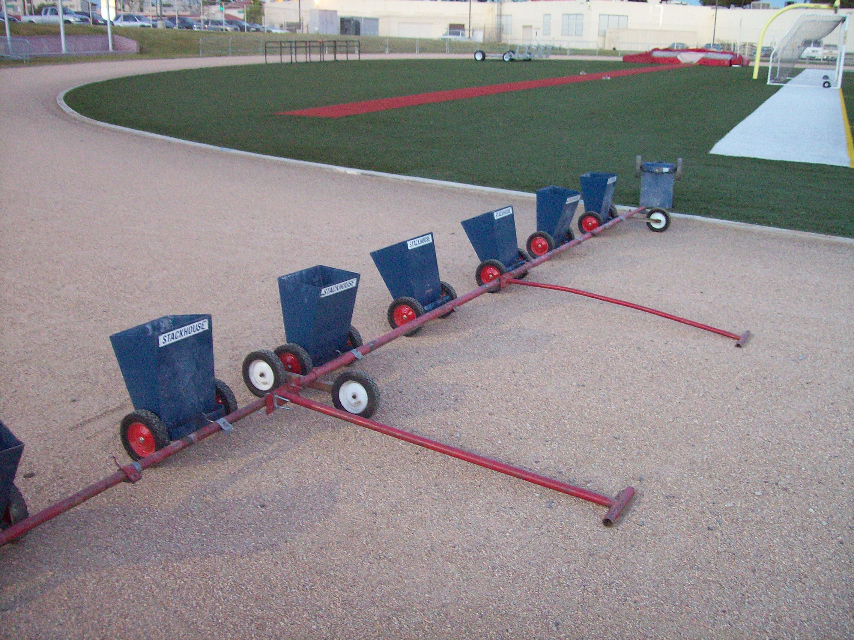 Equipment used for putting chalk lines on a cinder track. At Don Bosco Technical Institute in Rosemead, Southern California.